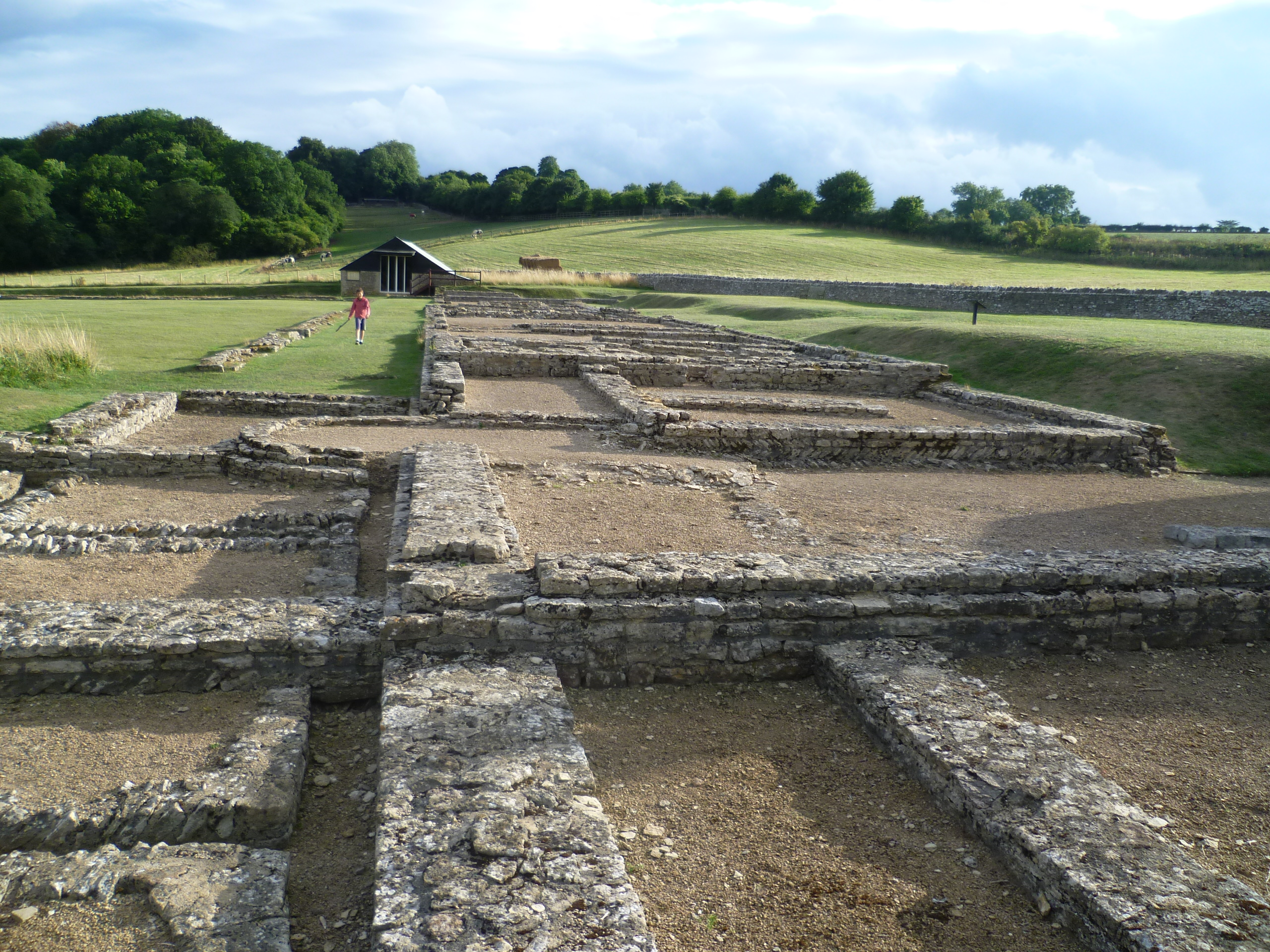 Large Roman Villa comprising 60 rooms. Original mosaics were excavated in 1813 and can be viewed. The villa dates from the late second century AD.